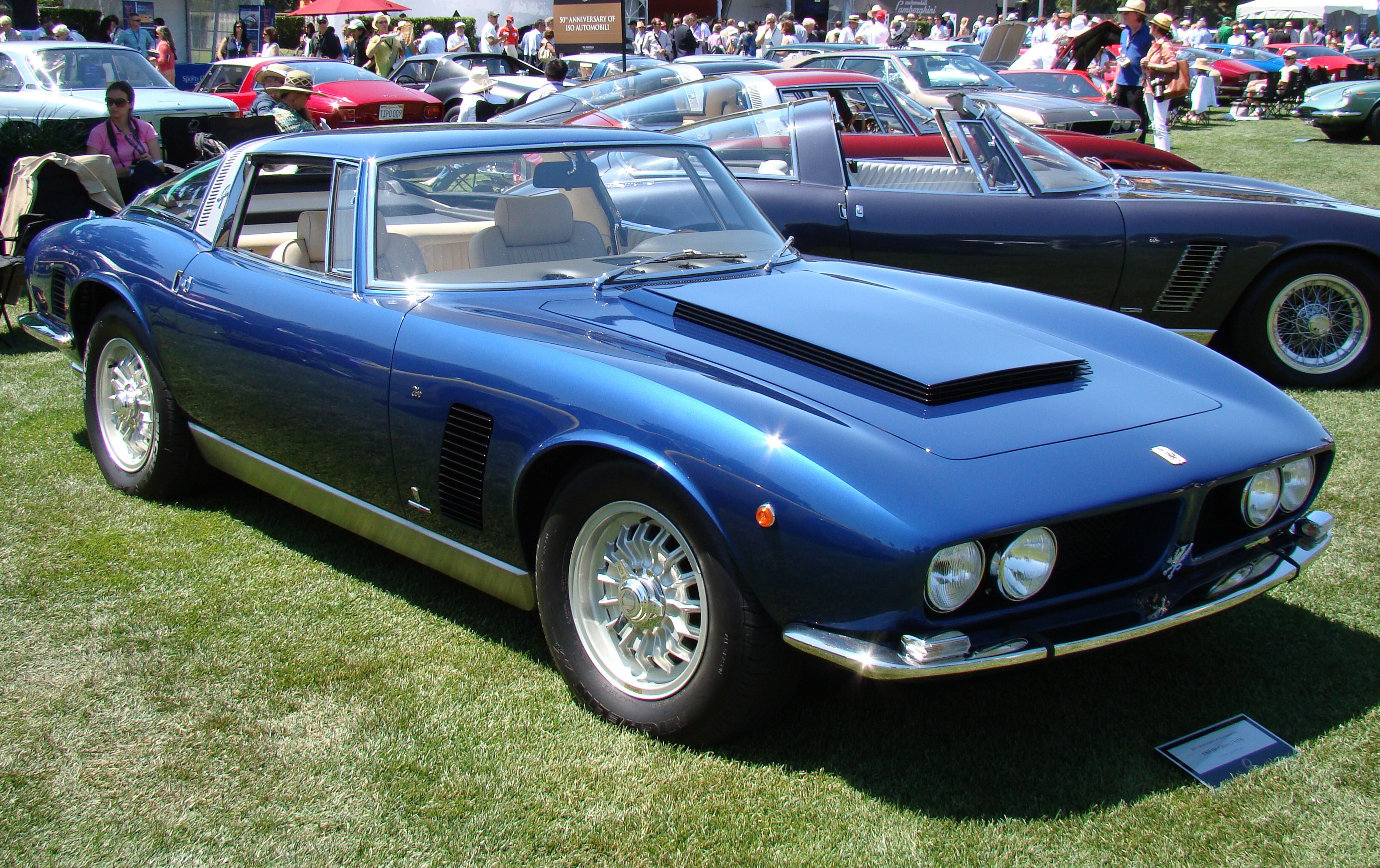 Iso Grifo 7-litre. Restored by The Creative Workshop, Dania Beach, Florida 33004